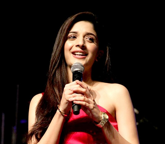 Mawra Hocane at the launch of 'Tera Chehra' song from Sanam Teri Kasam at Arijit Singh's concert